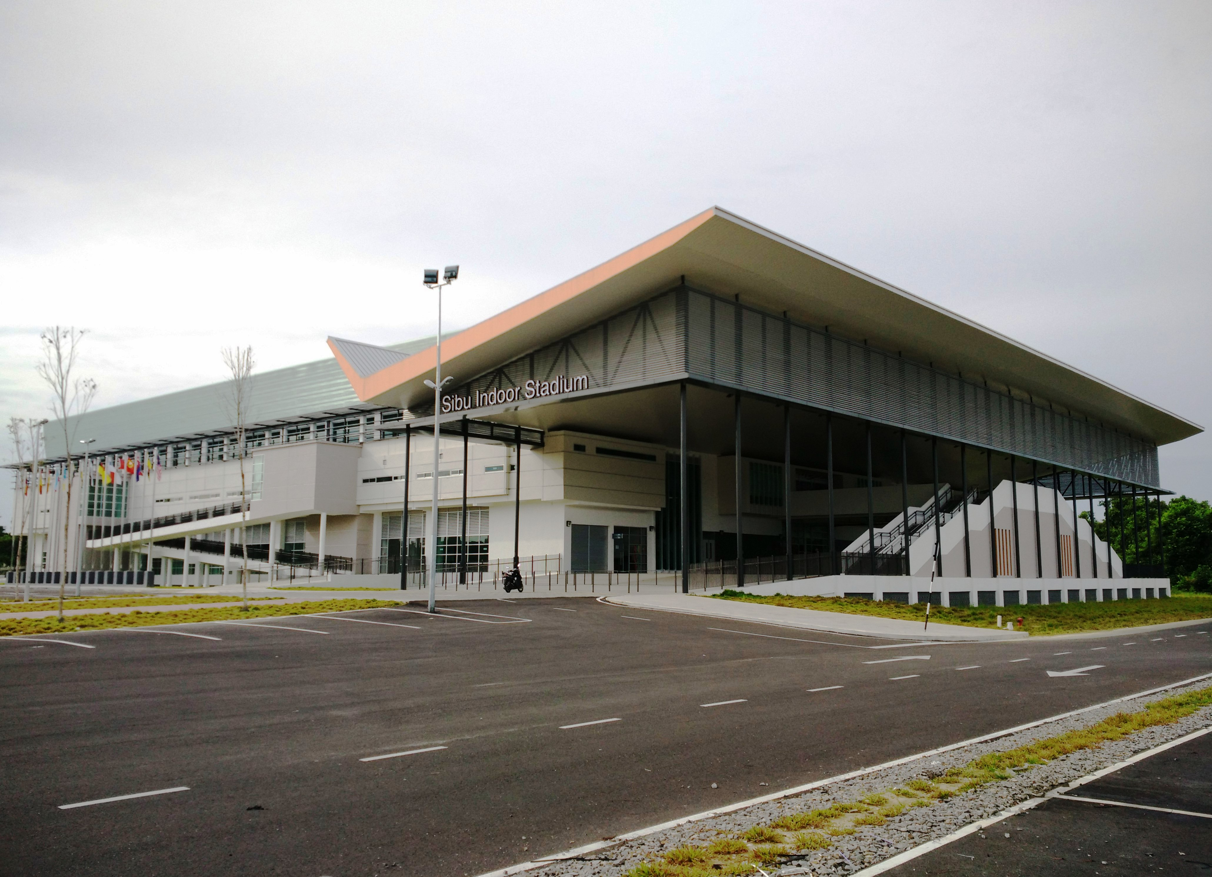 The Sibu Indoor Stadium near the Old Airport Road.